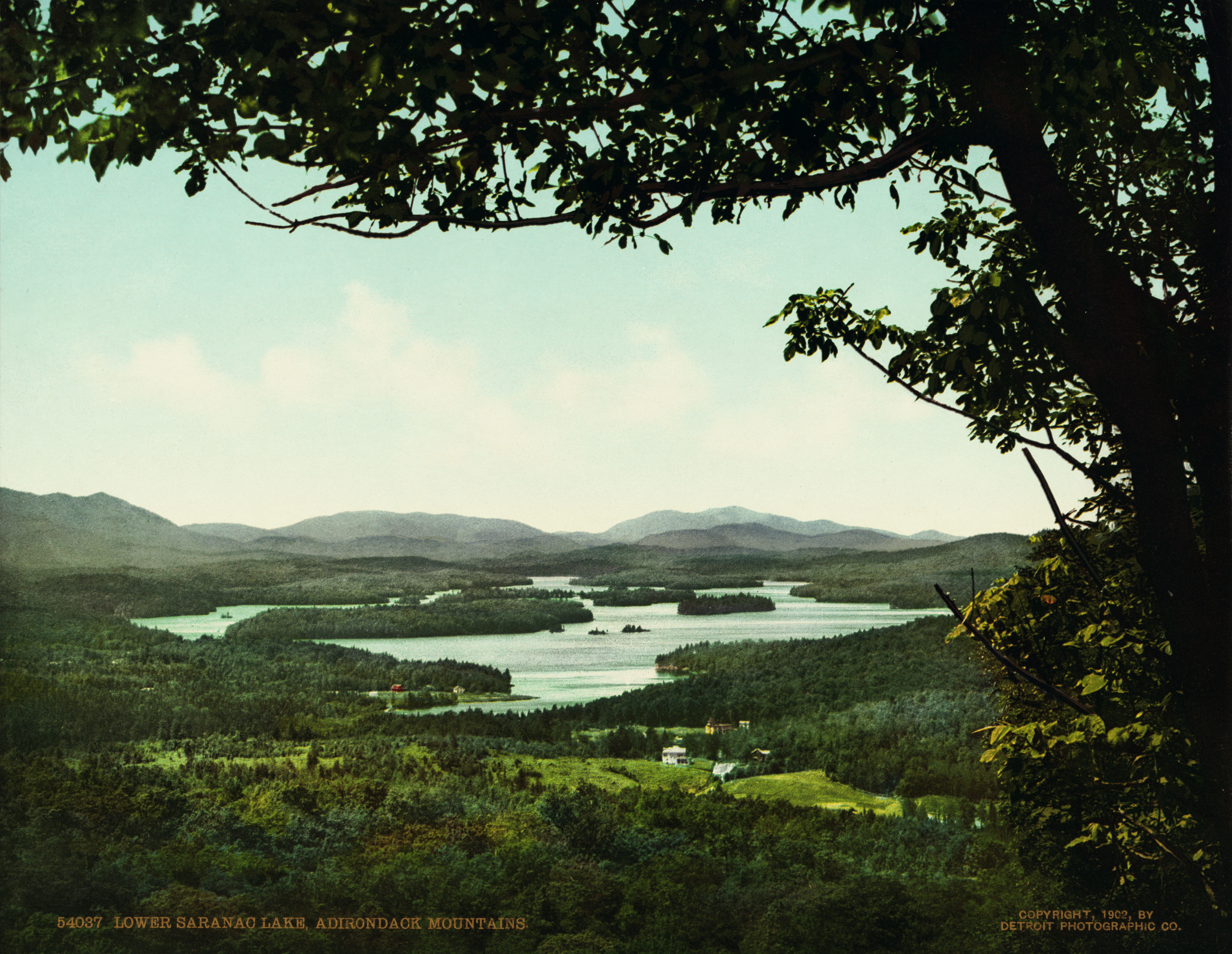 54037. Lower Saranac Lake, Adirondack Mountains, New York.